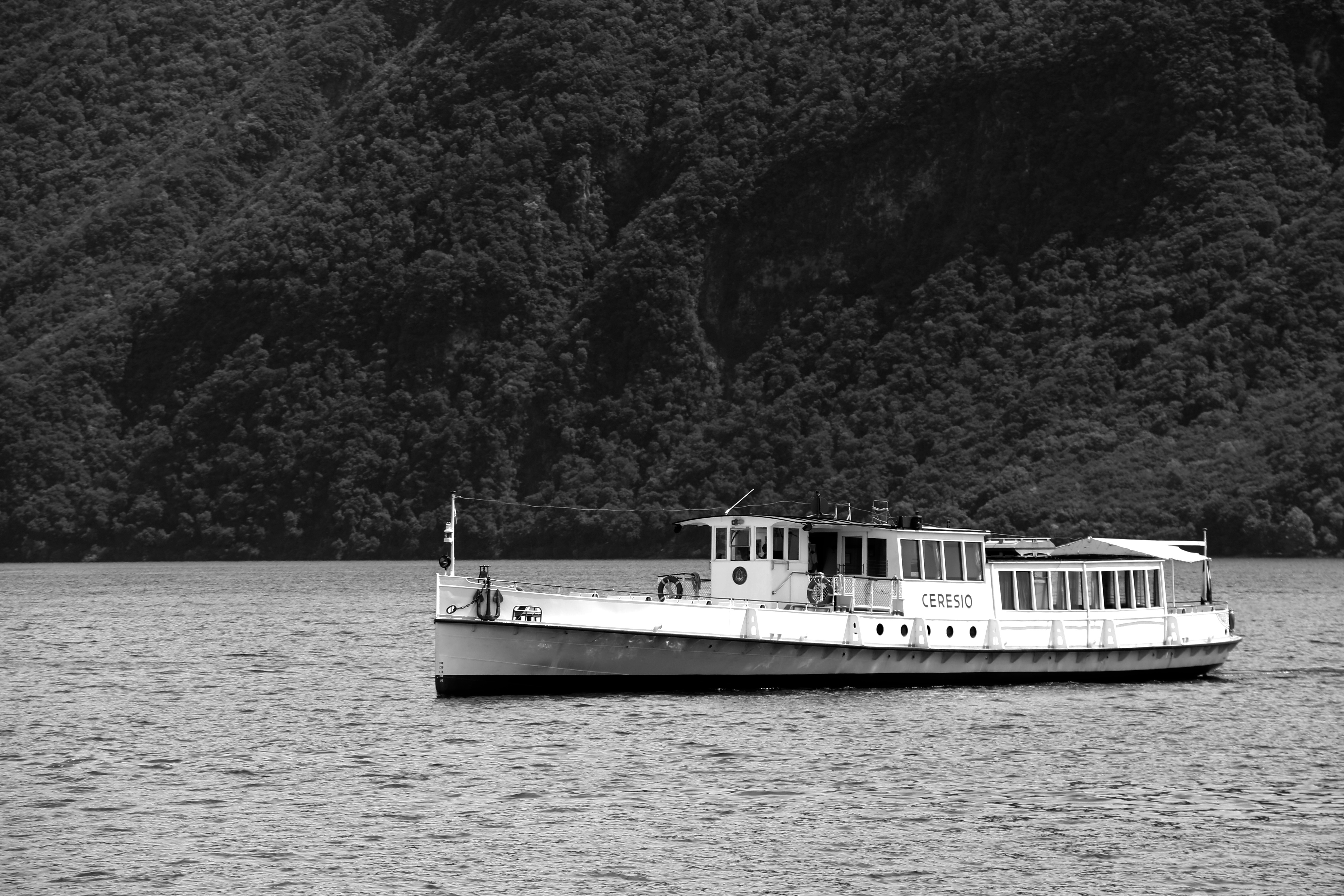 Passenger Ship Ceresio on Lake Lugano (2015)